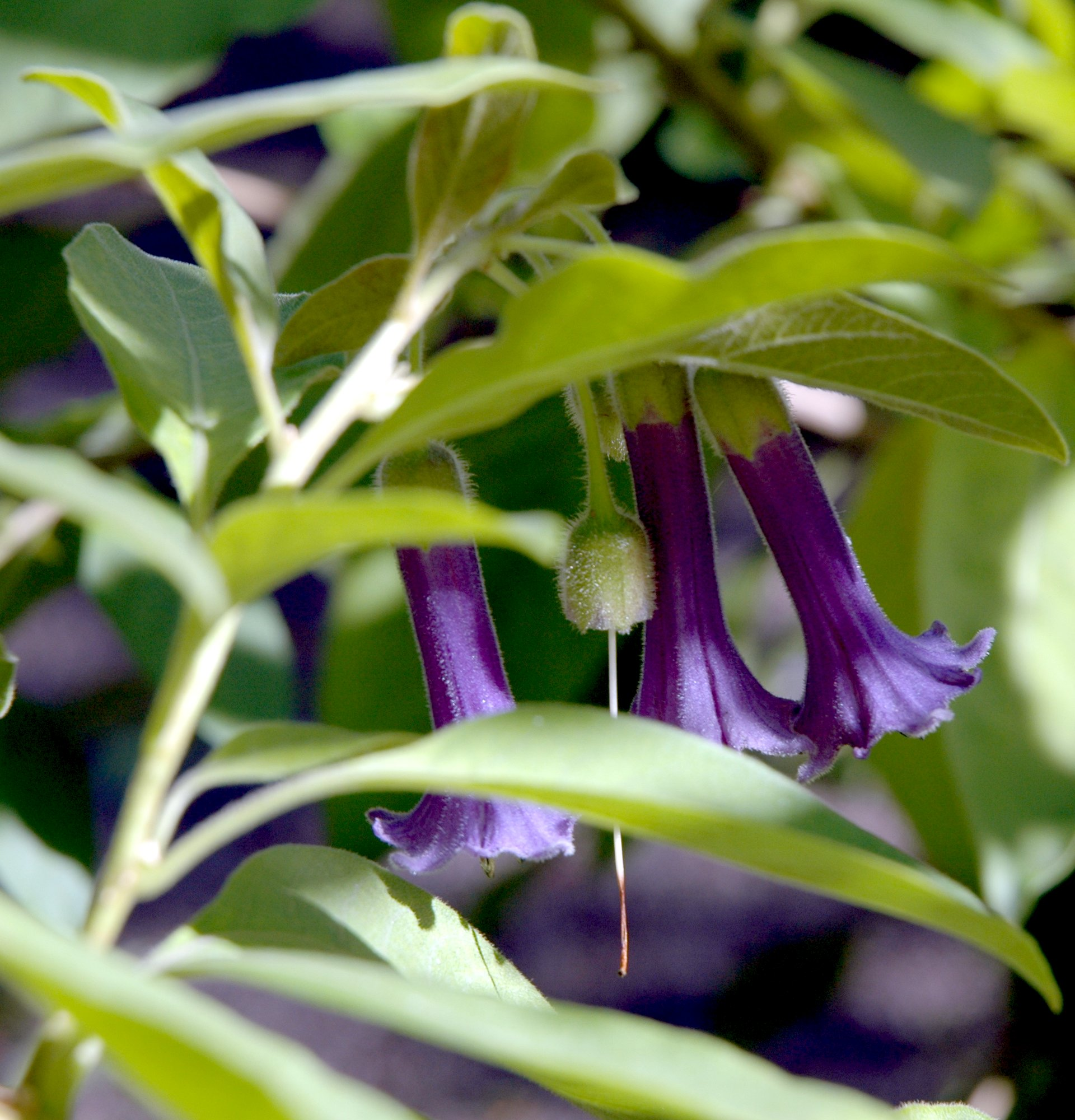 Flowers of Iochroma australe (Solanaceae) at Jena Botanical Garden, Germany